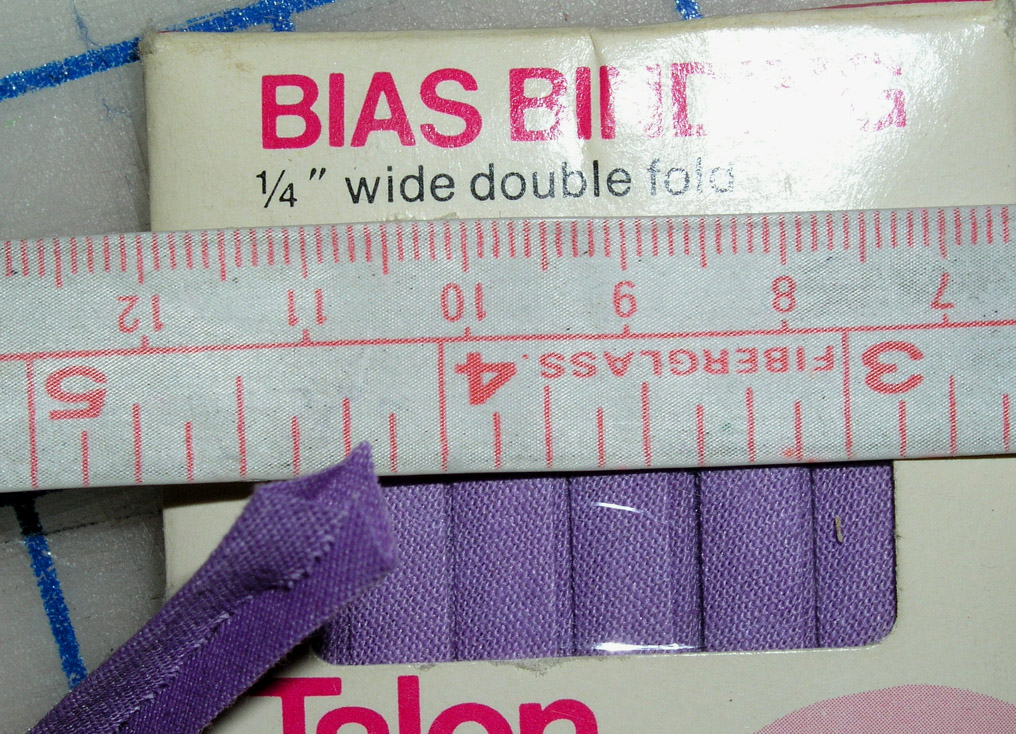 Commonly available double-fold bias tape, 1/4" wide (total width 1"), showing bias strip of fabric fold once on each edge and then folded down the middle.